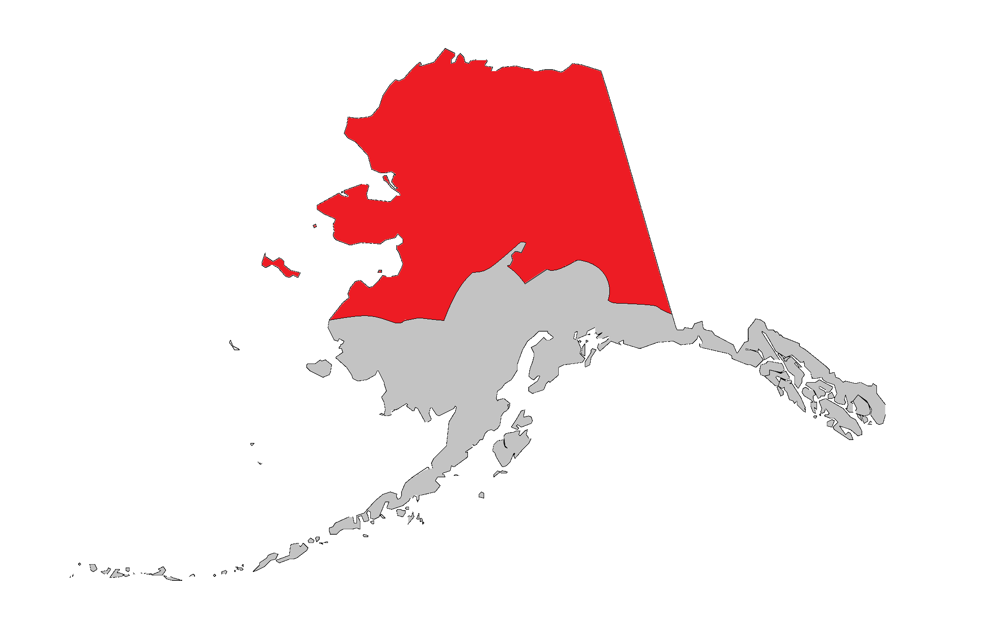 Northern District, Alaska (in red). A Census (statistical) area in the District of Alaska between 1880 and 1900. Based on "Map of boroughs and census" areas by cmrivers.